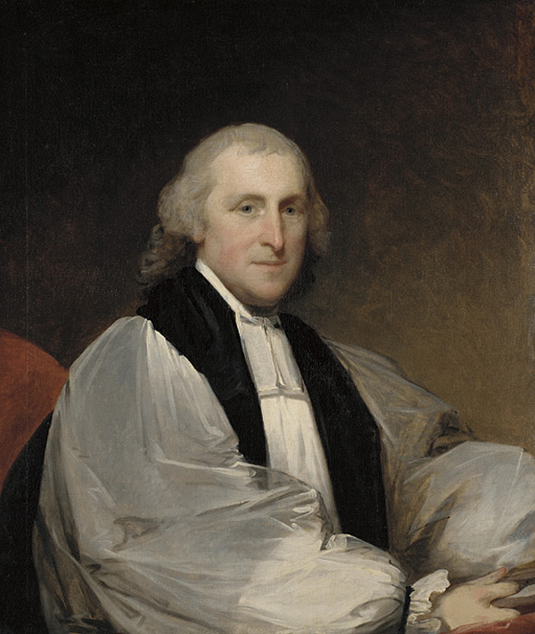 William White, (1748 - 1836-07-17), Bishop, Episcopal Church, USA, Oil Painting at the bequest of William White.